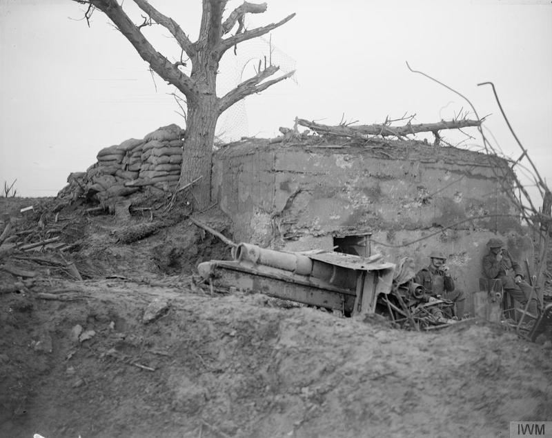 The Battle of Passchendaele, July-november 1917 A German concrete pillbox or blockhouse captured by the Coldstream Guards on the outskirts of Houlthulst Forest, Battle of Poelcappelle, 10 October 1917.